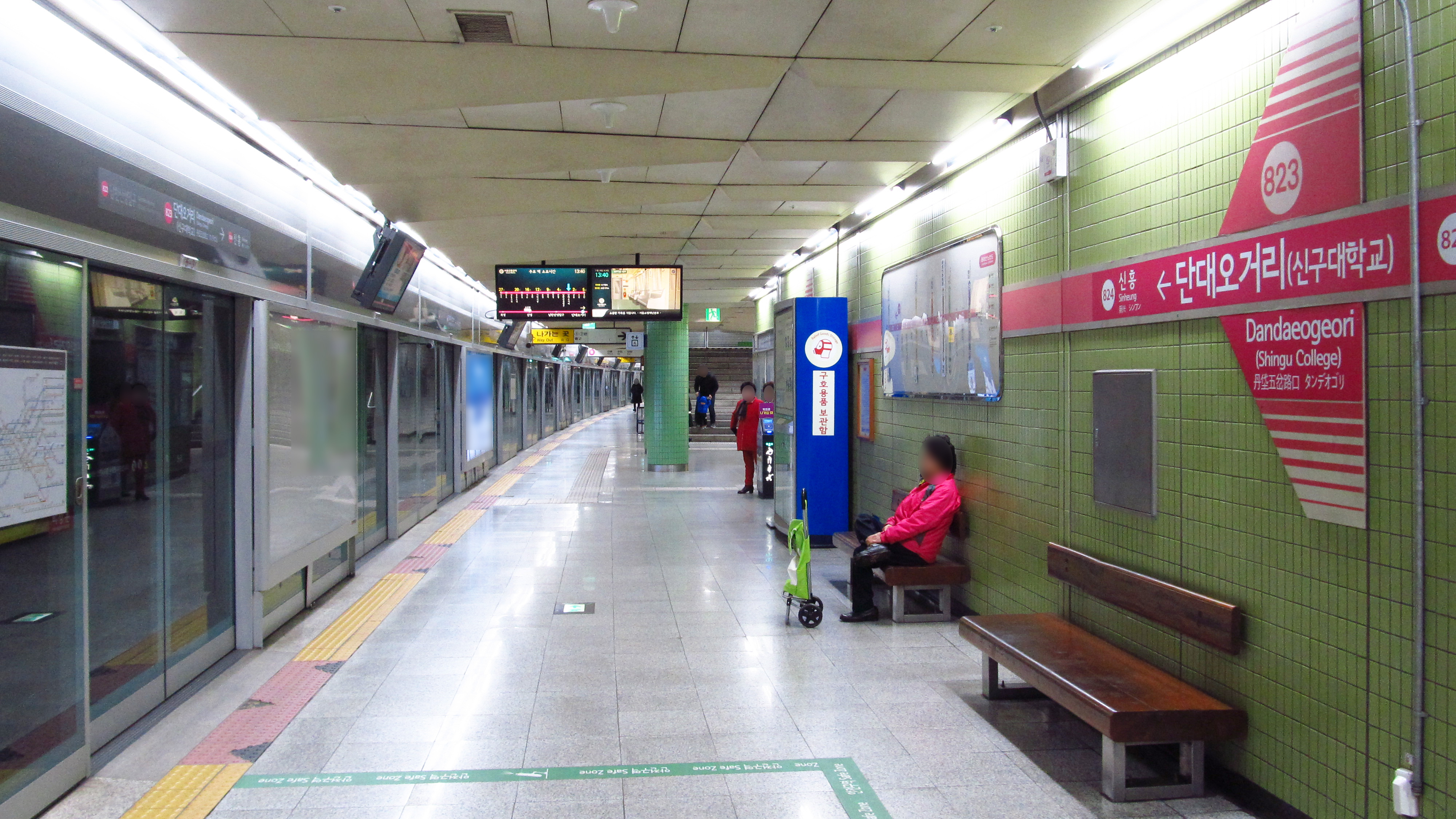 The platform at Dandaeogeori Station on Seoul Subway Line 8 in Seongnam city, Gyeonggi-do(province), Republic of Korea(South Korea)